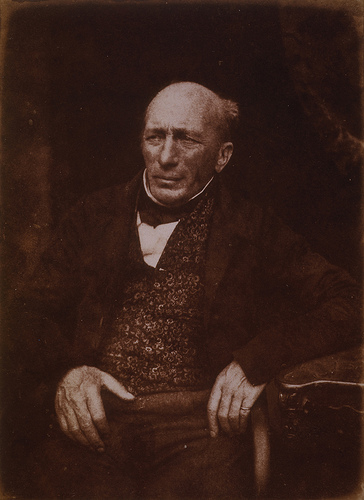 Captain Robert Barclay-Allardyce, 1779 - 1854. Celebrated pedestrian in the collection of the National Galleries of Scotland Accession no. PGP HA 50 Medium Calotype print Size 19.50 x 14.70 cm Credit Purchased from Howard Ricketts 1975, who purchased the Royal Scottish Academy albums